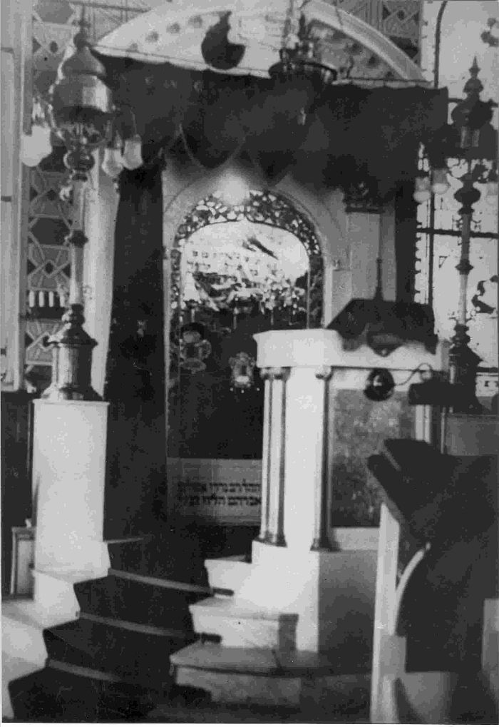 Synagogue of Emden in Germany, destroyed by the nazis during the Kristal Nacht in 1938- The torah Ark